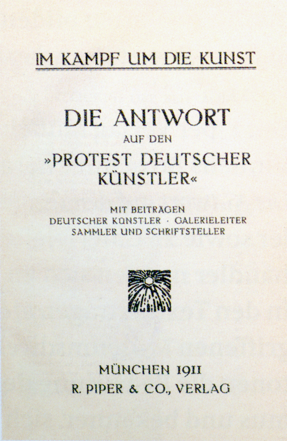 Cover of the publication Antwort auf den Protest deutscher Künstler (“Answer on the protest of german artists”), 1911.